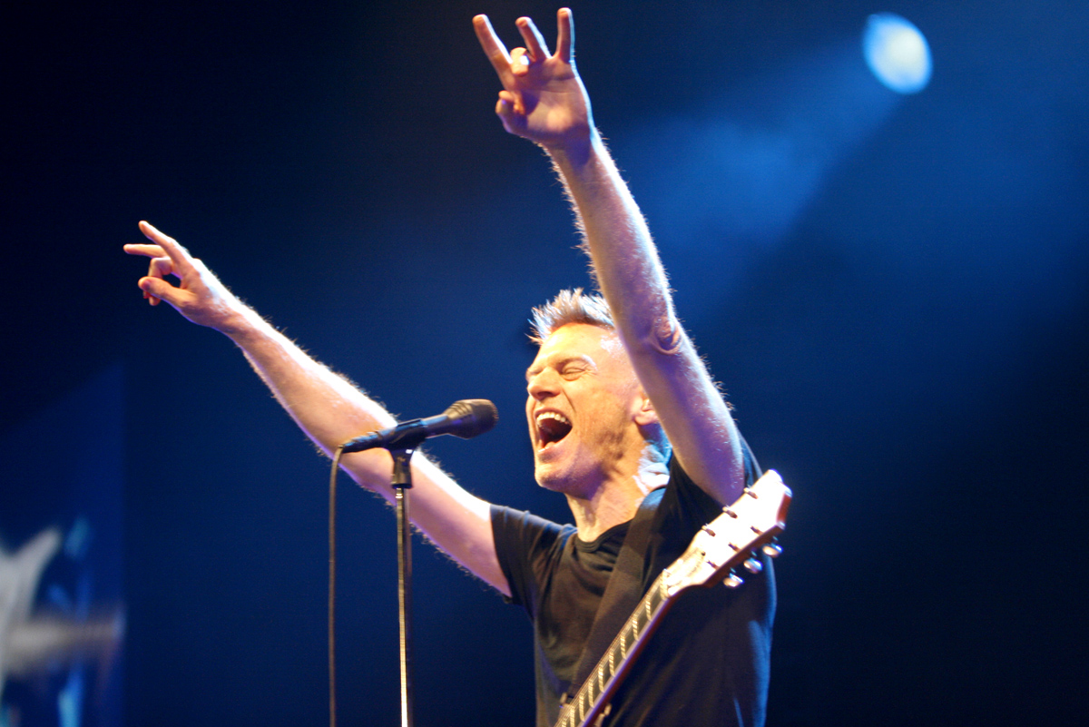 Bryan Adams live in the Color Line Arena, Hamburg, Germany, on June 3, 2007